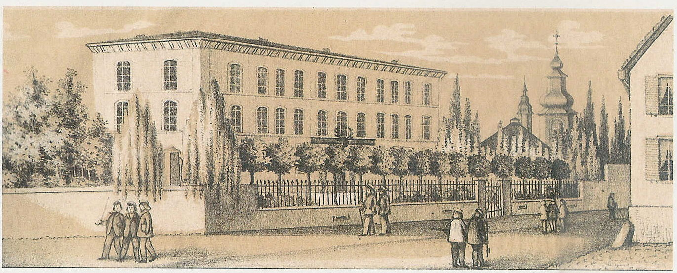 Bavarian Forestal School (later "University") of Aschaffenburg in 1854, Bayerische Forstlehranstalt in Aschaffenburg um 1854; Schule in der Alexandrastraße, im Hintergrund die Sandkirche